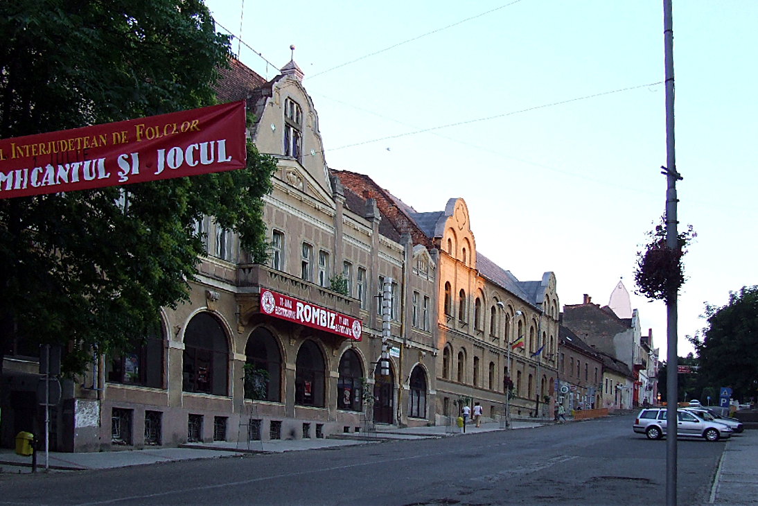 View from Tăşnad town, Satu Mare County, Romania